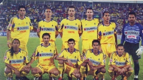 Pahang FA 2004 team that win the first inaugural of Malaysia Super League.